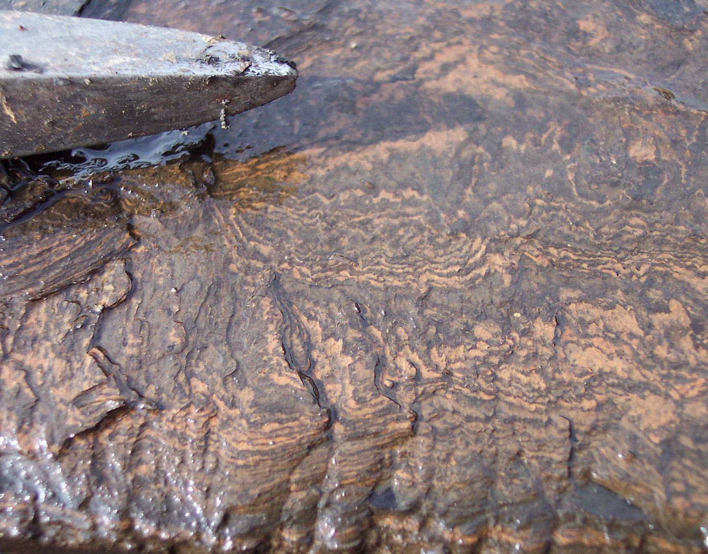 Close up of Messel oil shale showing orange coloured siderite-rich laminae. The lowermost part of the image shows an almost vertical section. In the remaining part of the image partial bedding planes of overlapping and less than 1 mm thick laminae are visible. Contrast of the rock is enhanced by water.